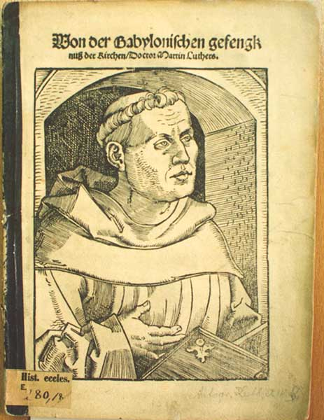 This work, which features Martin Luther's portrait, first appeared in Latin and was directed against Catholic sacramental teaching. Of the seven sacraments, Luther considered only baptism and communion, and to some degree, confession, sacraments of Christ. In the case of communion, he rejected the notions that it was a sacrifice to God and that the elements are transformed (transubstantiation). Martin Luther Von dem babylonischen Gefängnis der Kirche (On the Babylonian Captivity of the Church) Wittenberg, 1520, title page Paper (21)